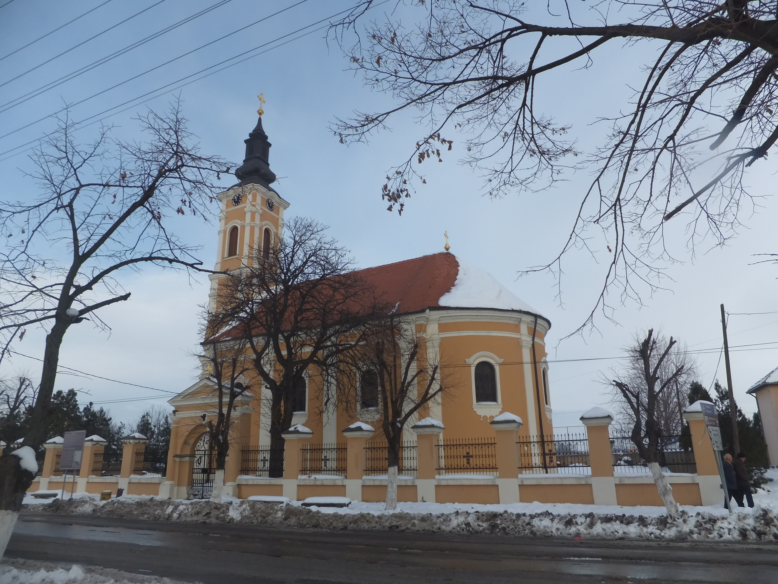 Church of Saint Nicholas in Šimanovci